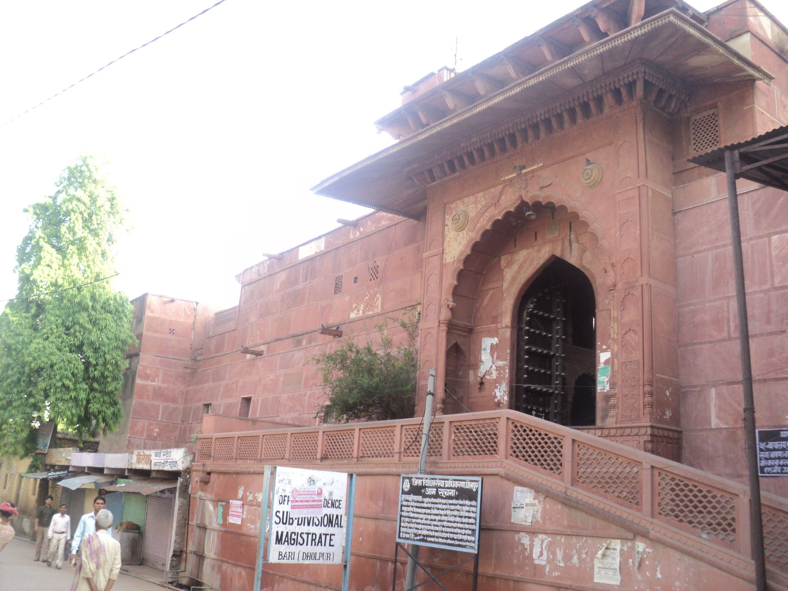 Forte Bari, at present SDM office and Mjm and AcjmCourt of Bari